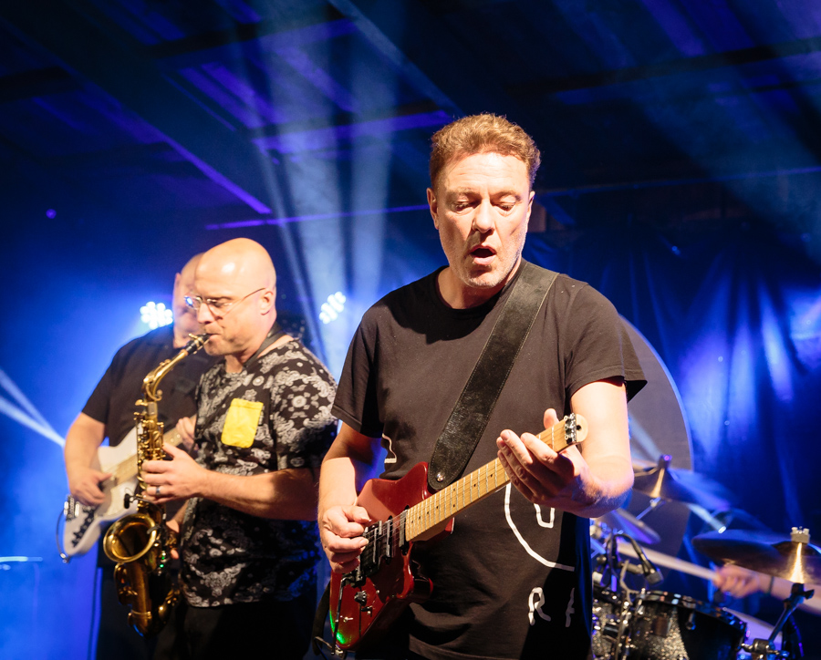 Mezzoforte at the stage of Christians Kjeller. The concert was part of Kongsberg Jazzfestival and took place on 08. July 2017. Lineup: Eythor Gunnarsson (keyboard) Jonas Wall (saxophone) Fridrik Karlsson (guitar) Johann Asmundsson (bass guitar) Gulli Briem (drums)